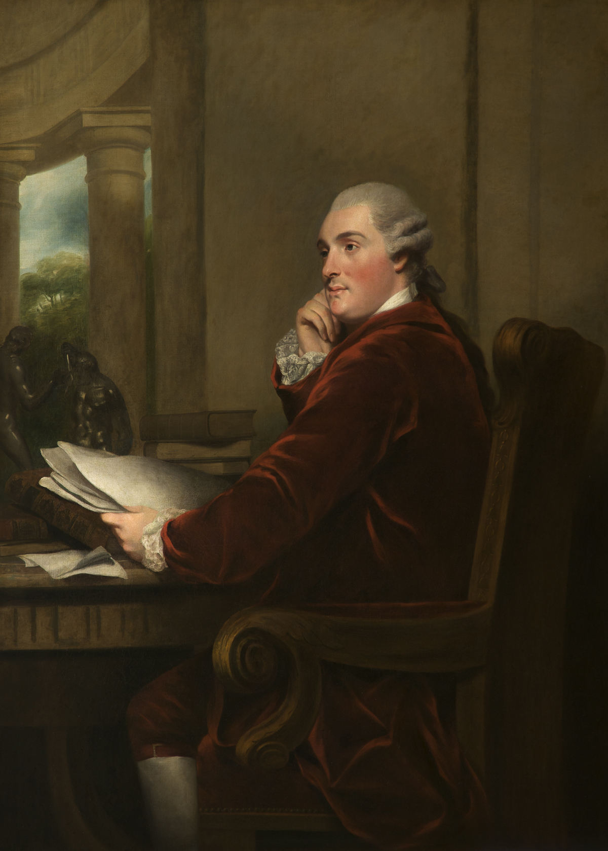 A three-quarter-length portrait of William Cavendish-Bentinck, 3rd Duke of Portland, turned to the left, gazing to the left, seated in a red upholstered armchair, holding some papers with his left hand and his cheek leaning on his right hand. Dressed in dark crimson velvet coat and knee-breeches, with white stockings, Short powdered wig, tied at the back with a black ribbon. Architectural background with pillard portico on the left, with view of trees and sky. On the table are books, and two bronze statuettes, one representing either Samson or Hercules holding the jawbone of an ass, the other possibly a boxer.